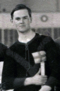 Albin Jansson with the swedish national ice hockey team at the 1920 Summer Olympics in Antwerp, Belgium. The picture is a crop out of a larger team photo taken inside the ice rink Palais de Glace d'Anvers. The ice hockey tournament at the 1920 Summer Olympics took place between April 23 and April 29.